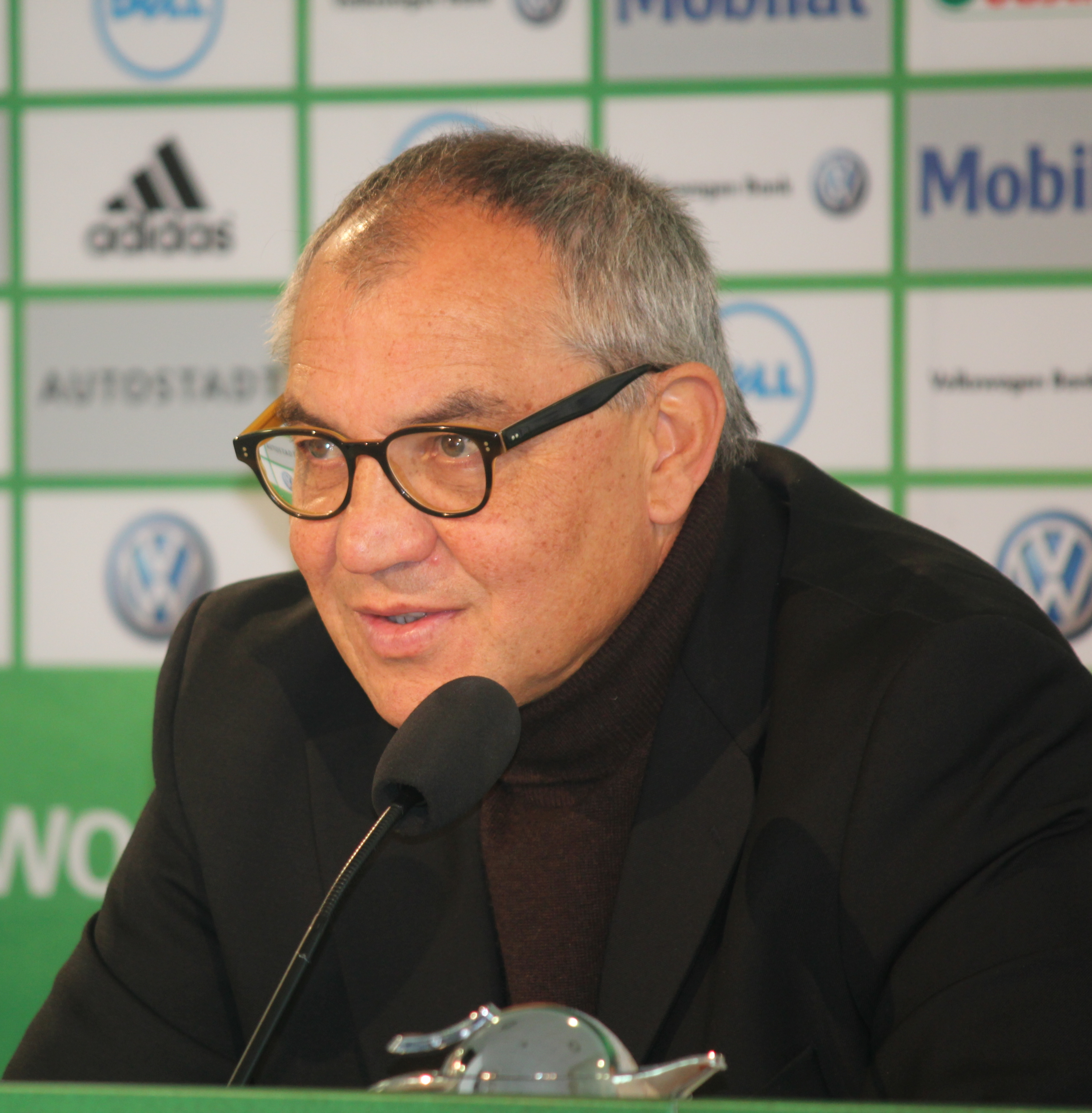 Felix Magath doing a press conference for the VfL Wolfsburg